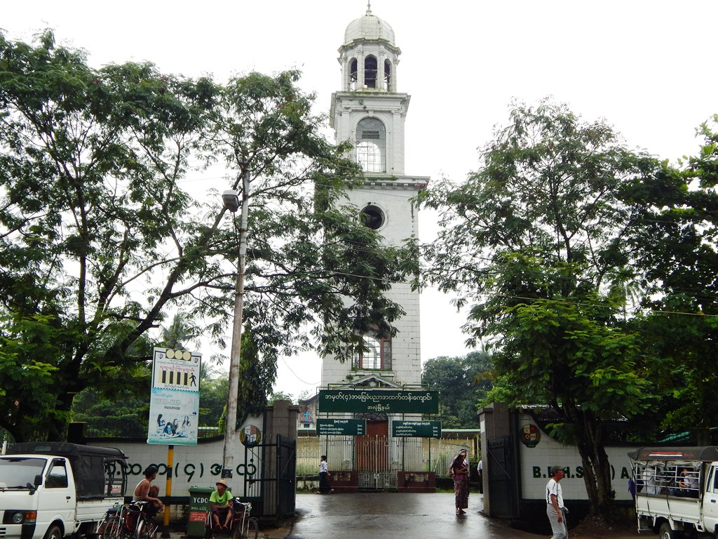 Basic Education High School No. 4 Ahlon, Yangon, Burma